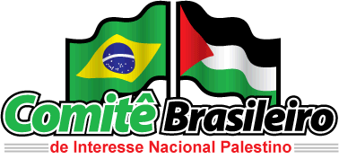 CBINP Logo